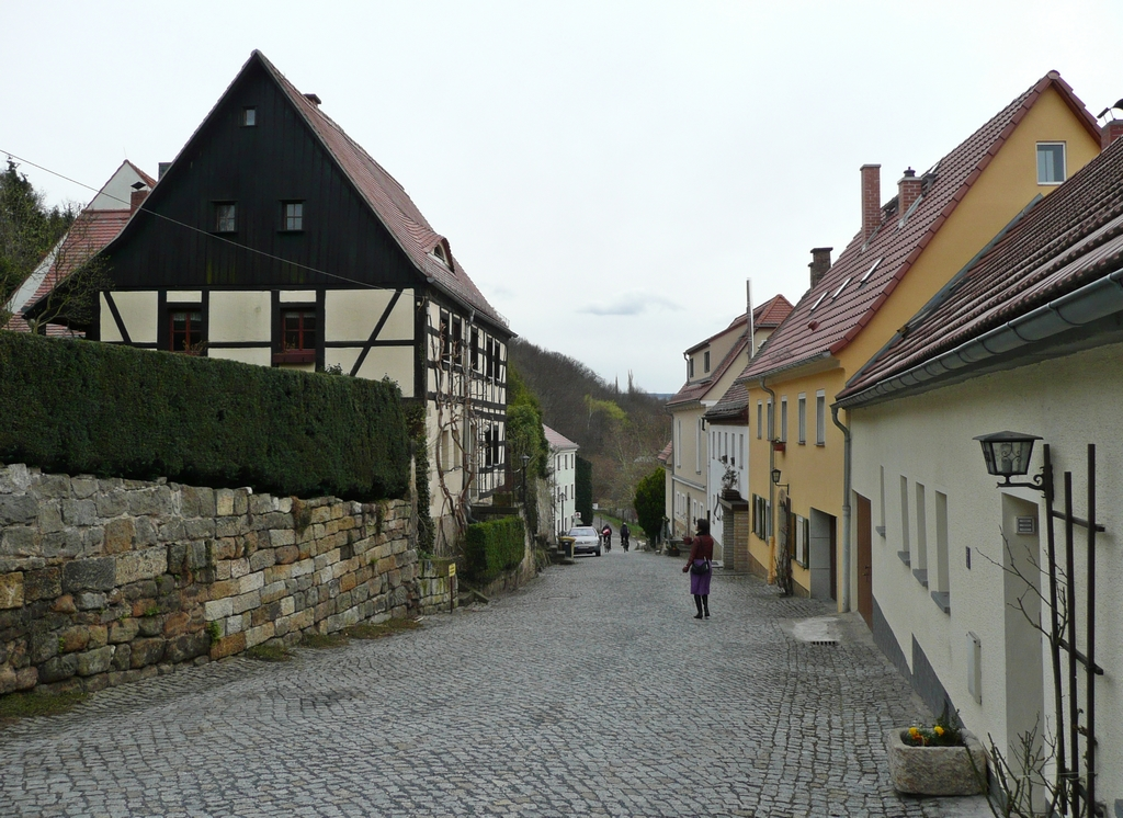 Pirna: Am Hausberg.